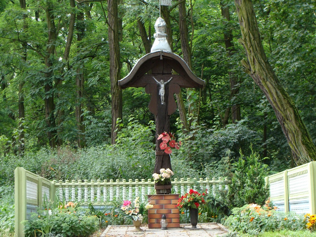 Góra, roadside shrine.